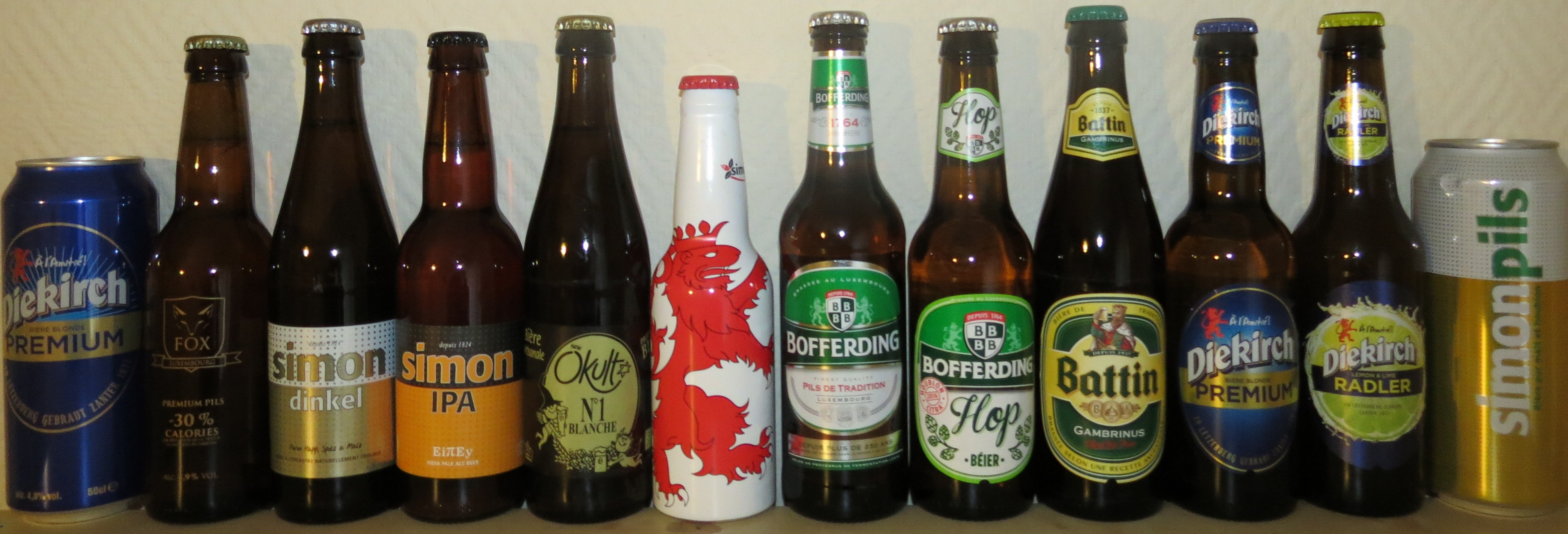 Some Luxembourgish beer brands sold in January 2017 (from left to right): - Diekirch Premium (can) - Fox - Simon Dinkel - Simon IPA - Okult Blanche - Simon Pils (bottle) - Bofferding - Bofferding Hop - Bettin Gambrinus - Diekirch Premium (bottle) - Diekirch Radler (lemon and lime juice with beer) - Simon Pils (can)